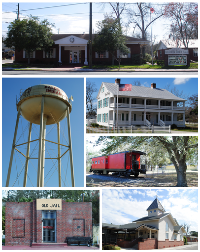 A collection of photos I took around Baldwin, Florida.